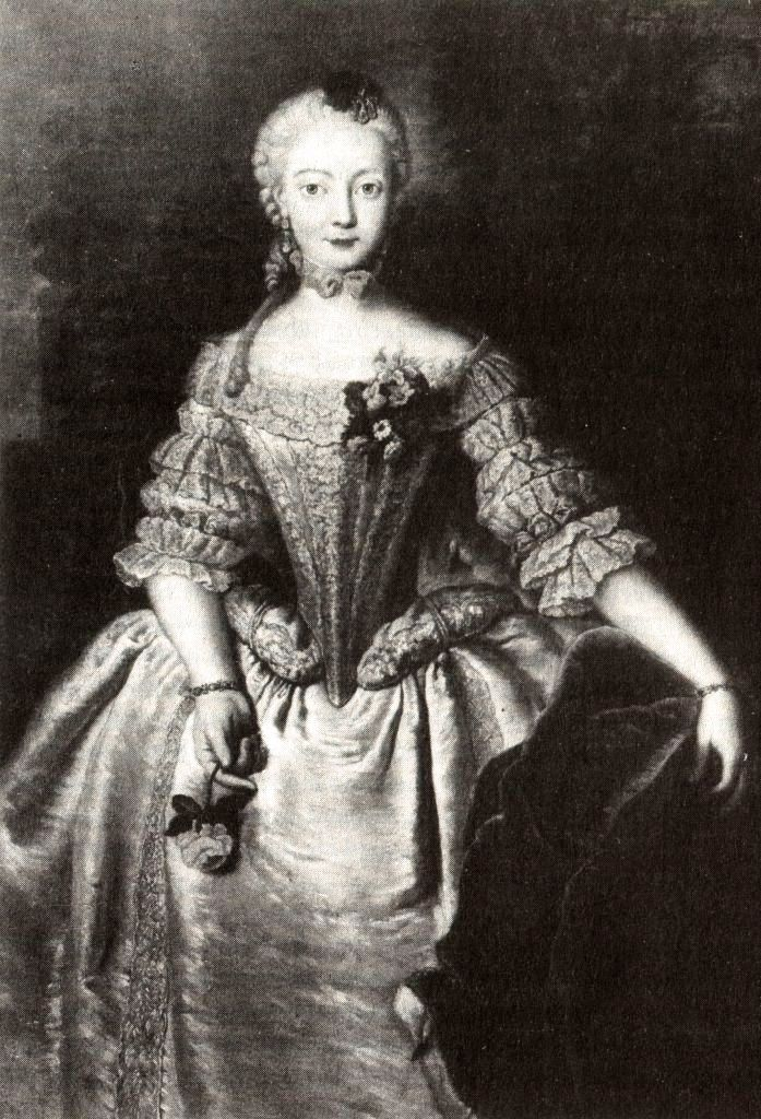 Portrait of Wilhelmine of Prussia, Margravine of Brandenburg-Bayreuth (1709-1758), daughter of Friedrich Wilhelm I, as a bride.